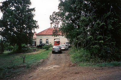 Orielton, Harrington Park: Orielton - View of the c.1840s single storey Georgian Homestead and remnant early plantings. N.B. This building, early garden and original entry are orientated toward Harrington Park Homestead in the east.